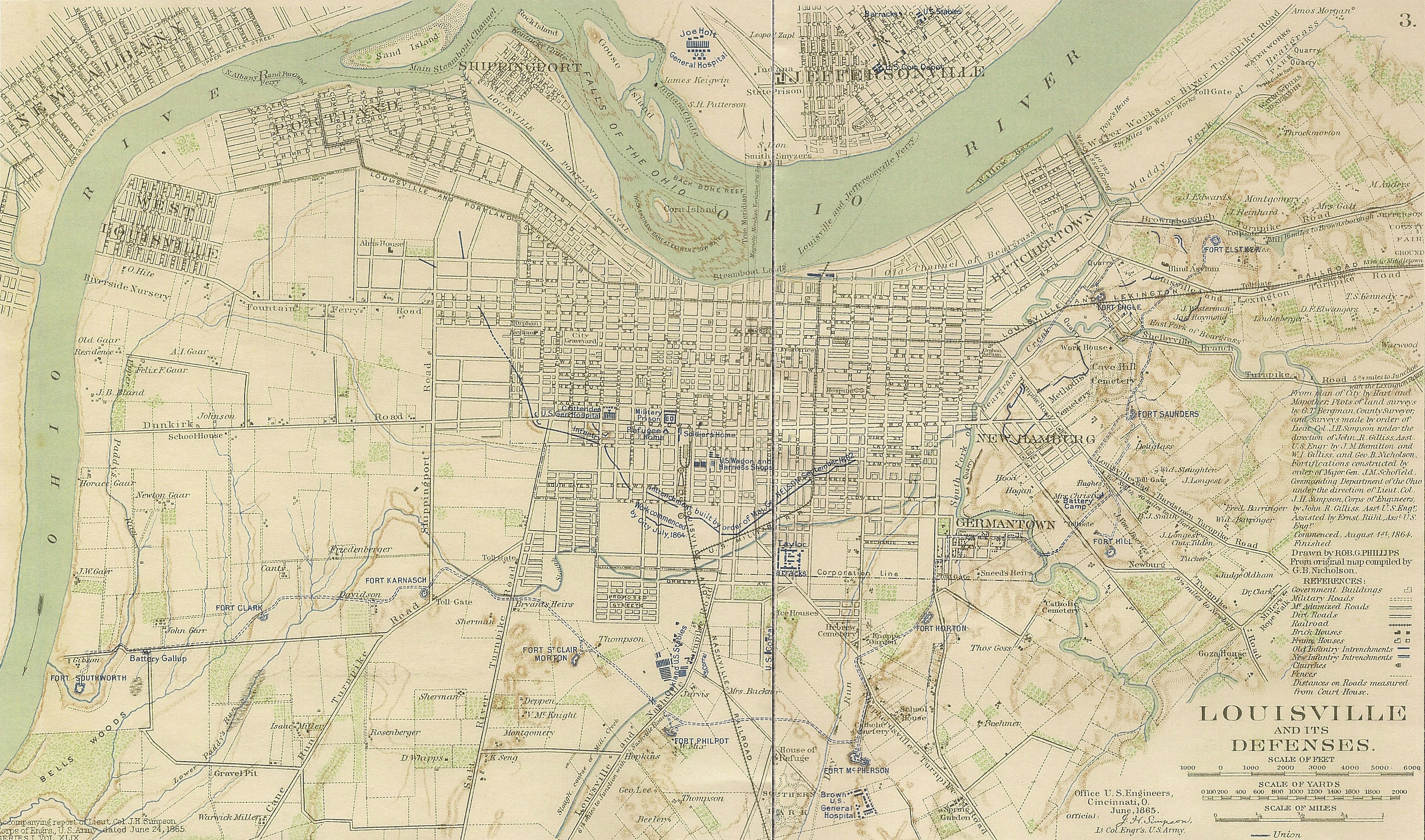 Map of Louisville defenses during the Civil War, published in June 1865.